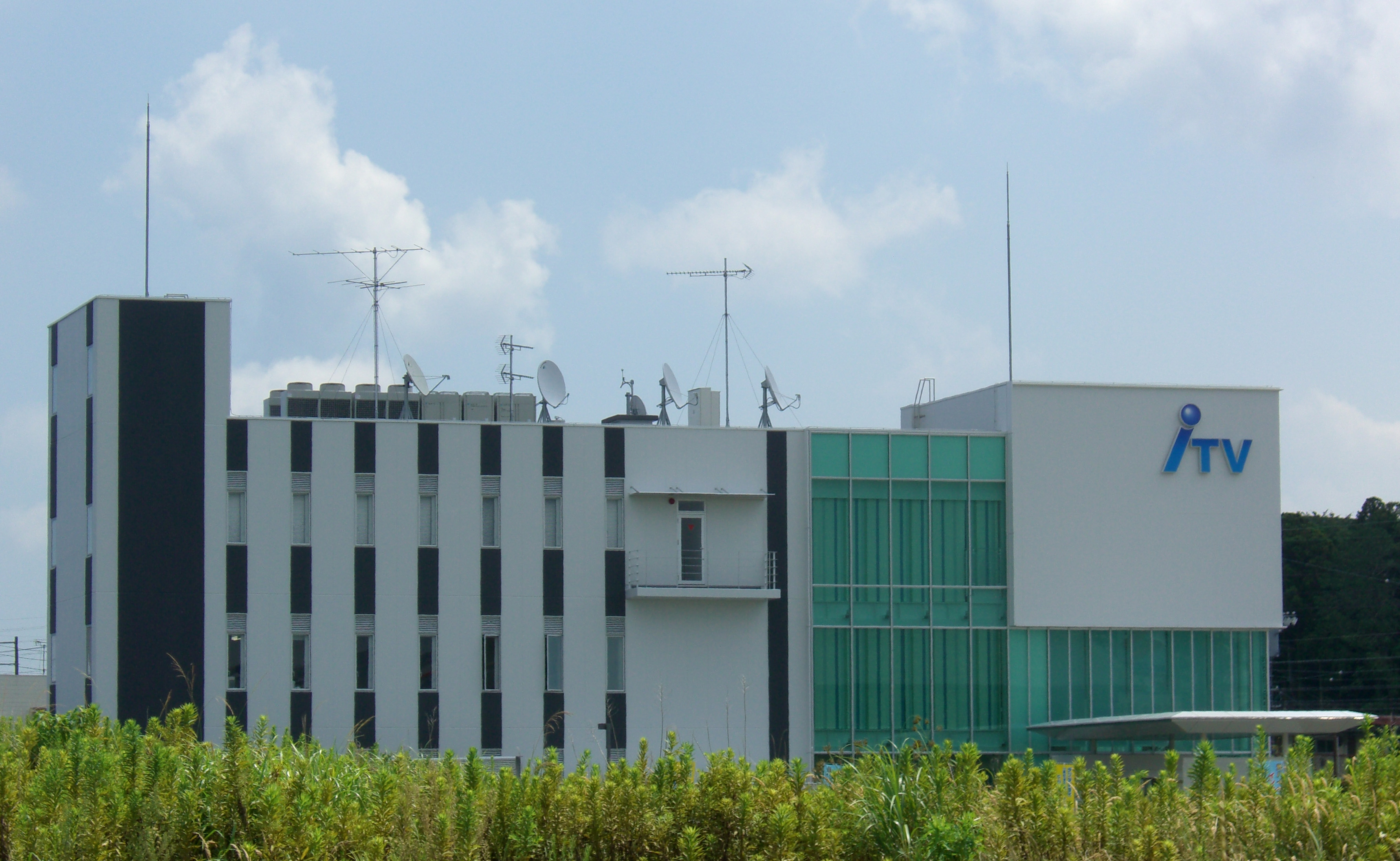 itv office. ise, mie, japan.